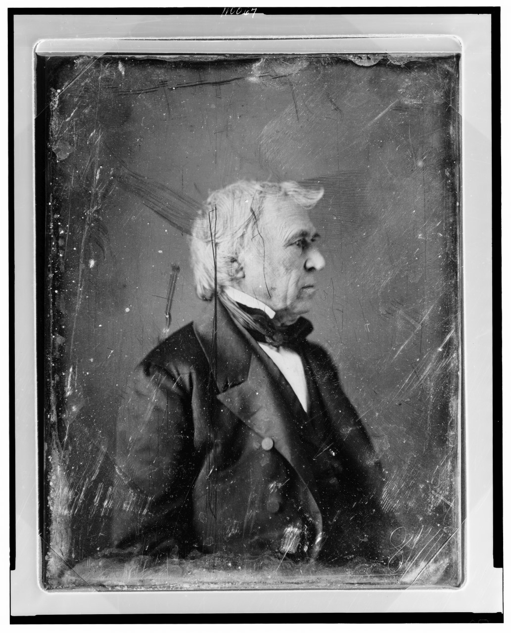 Old photo of Louis Bourgeois, mayor of Torcy (1844-1848)